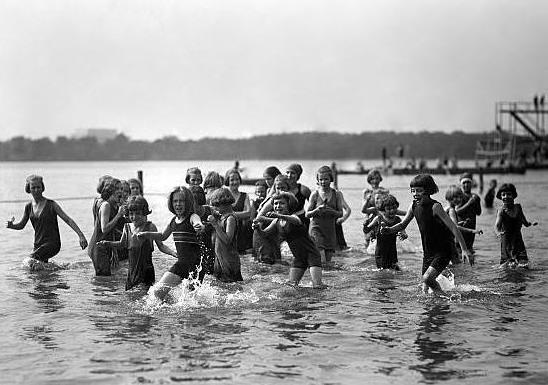 Orphans playing in the Tidal Basin, a partially man-made inlet located in Washington, D.C.